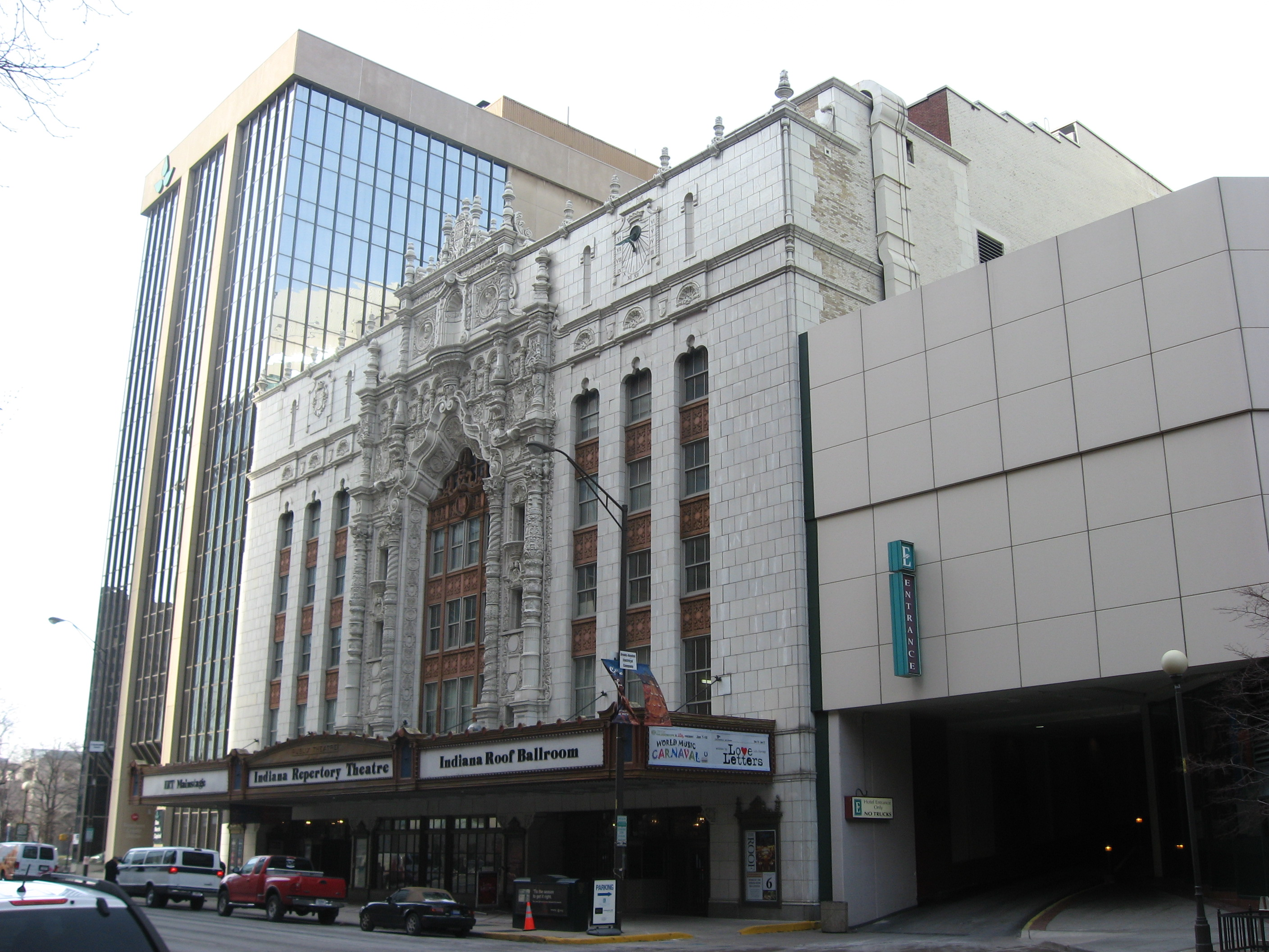 Front of the Indiana Theatre, located at 134 W. Washington Street in Indianapolis, Indiana, United States. Built in 1927, it is listed on the National Register of Historic Places, and it is a contributing property to the Register-listed Washington Street-Monument Circle Historic District.